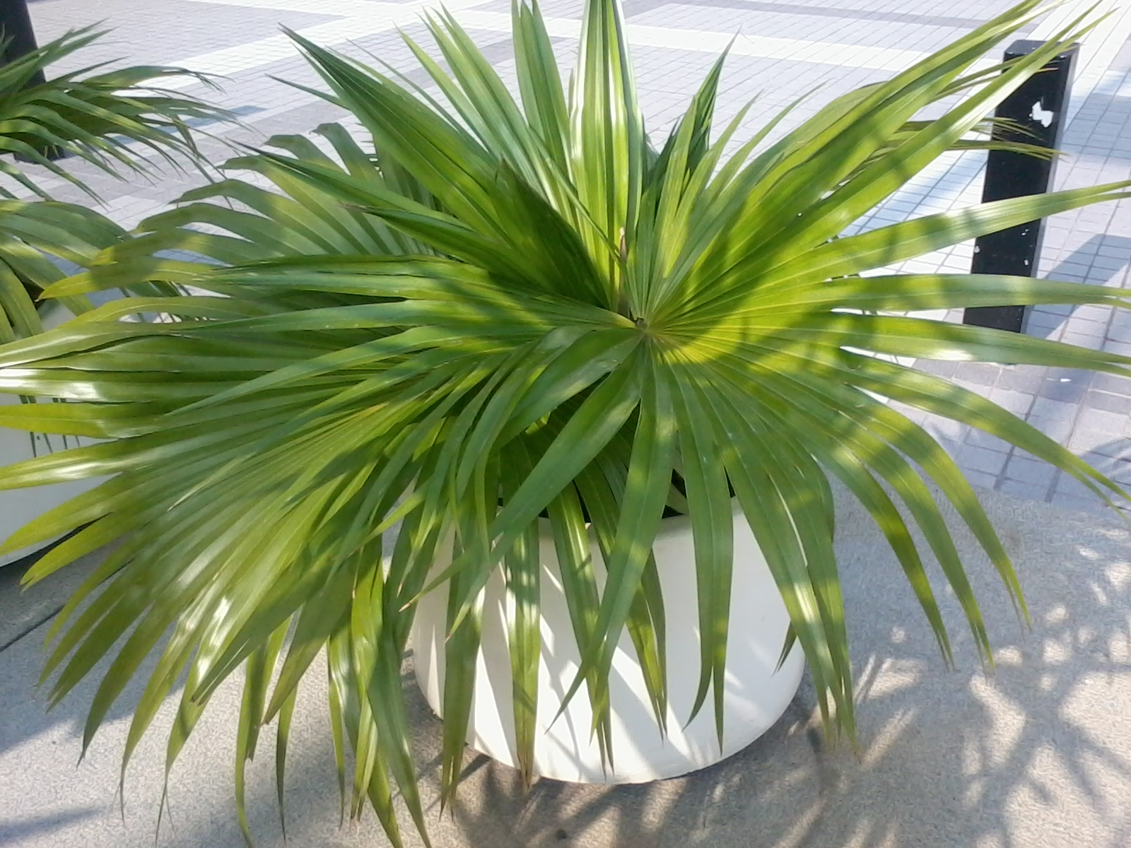 Edinburgh Place, Central, Hong Kong